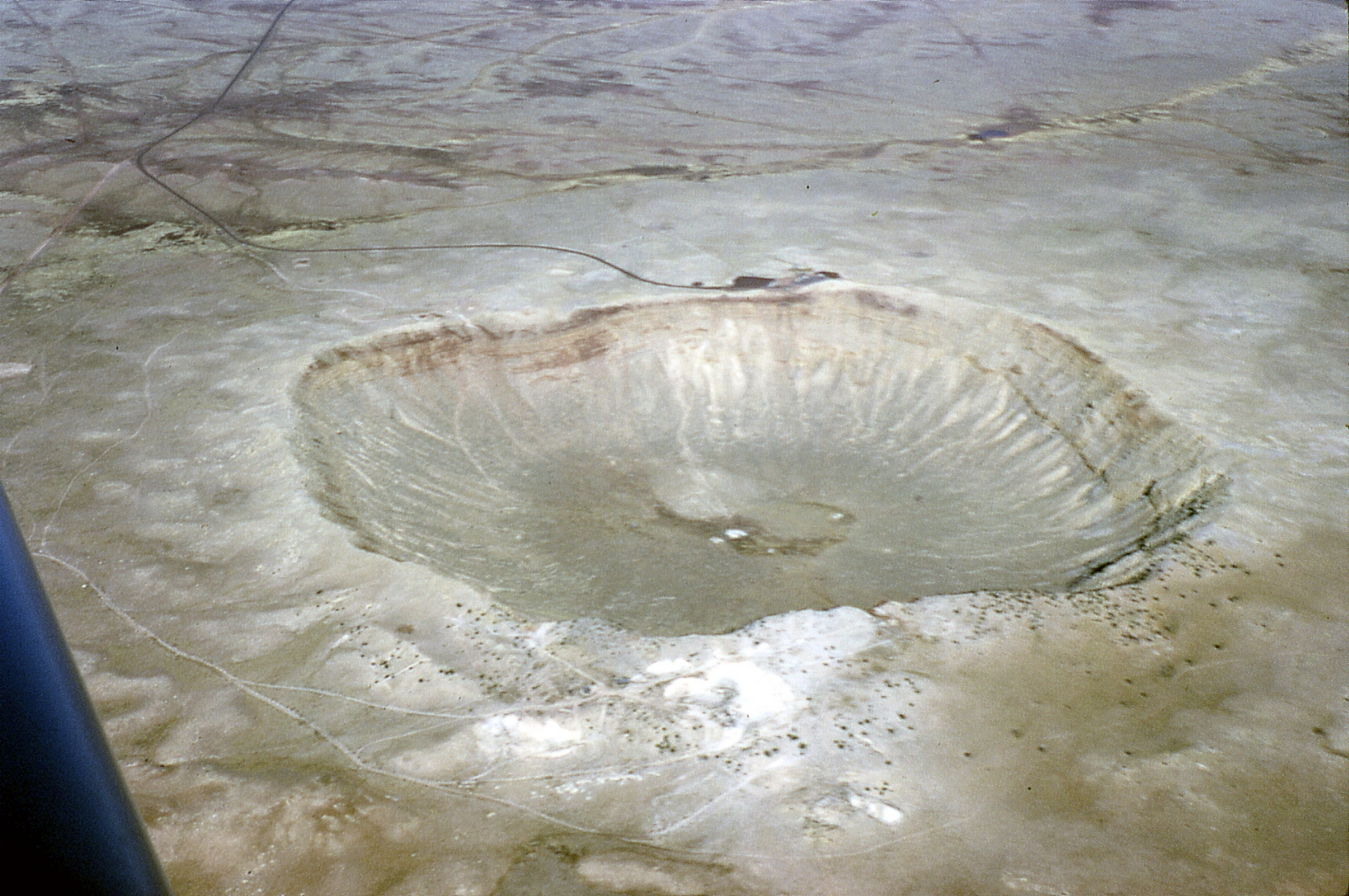 Aerial view of the Winslow Arizona Meteor Crater, looking from the S-SW. Taken with a 35mm Exakta VX, using Ektachrome slide film.